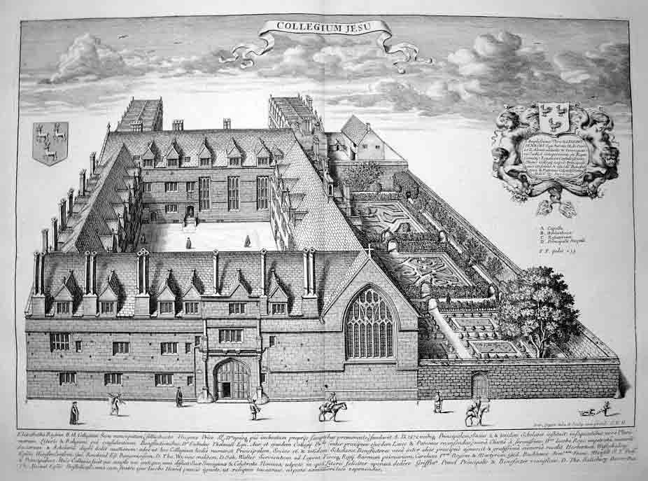 Jesus College, Oxford - an engraving from "Oxonia Illustrata" (1675) by David Loggan. describes it thus: "The first Illustrated book on Oxford and one of the major works of the 17th century. The book was the product of several years of devoted and conscientious effort in which Loggan was assisted by his pupil Robert White. David Loggan was born in Danzig in 1635 and came to England around 1653. By 1665 he was living in Nuffield near Oxford and in 1669 was appointed engraver to the University. In 1675 he married and became a naturalised citizen. His Oxonia Illustrata was intended as a companion work to Historia Antiquitates Universitatis Oxoniensis by Anthony Woods, with whom Loggan had become acquainted some years earlier."